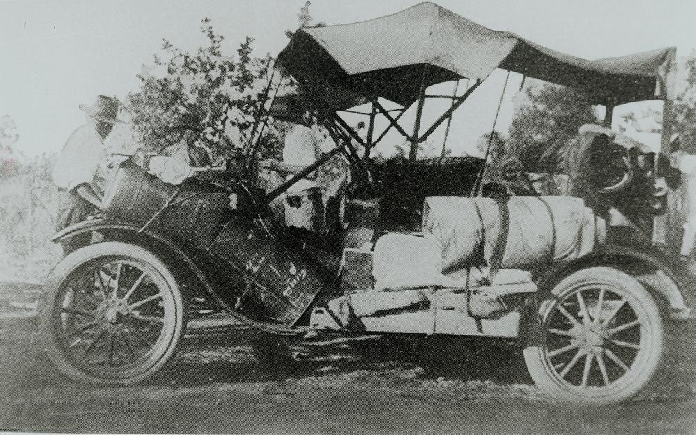 A Model T Ford used in a 1919 survey by Wilmot Hudson Fysh and Paul McGinness